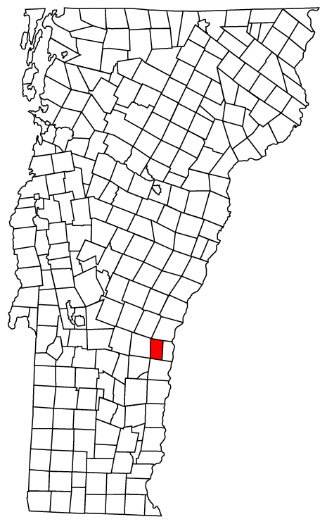 Map of Vermont towns with Windsor highlighted